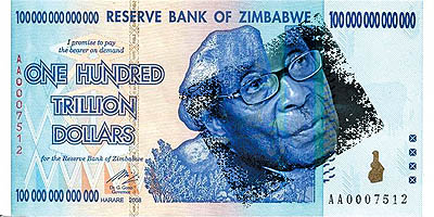 زیمبابوه با نرخ تورمی معادل 231 میلیون درصد در سال